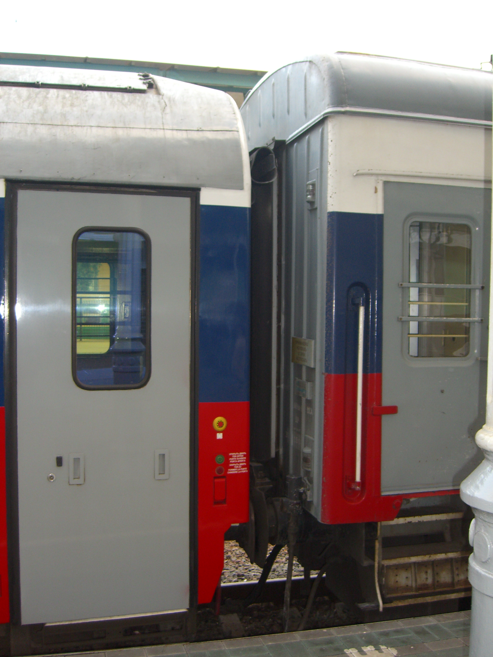 Standard and broad gauge cars at Moscow Belorusskaja